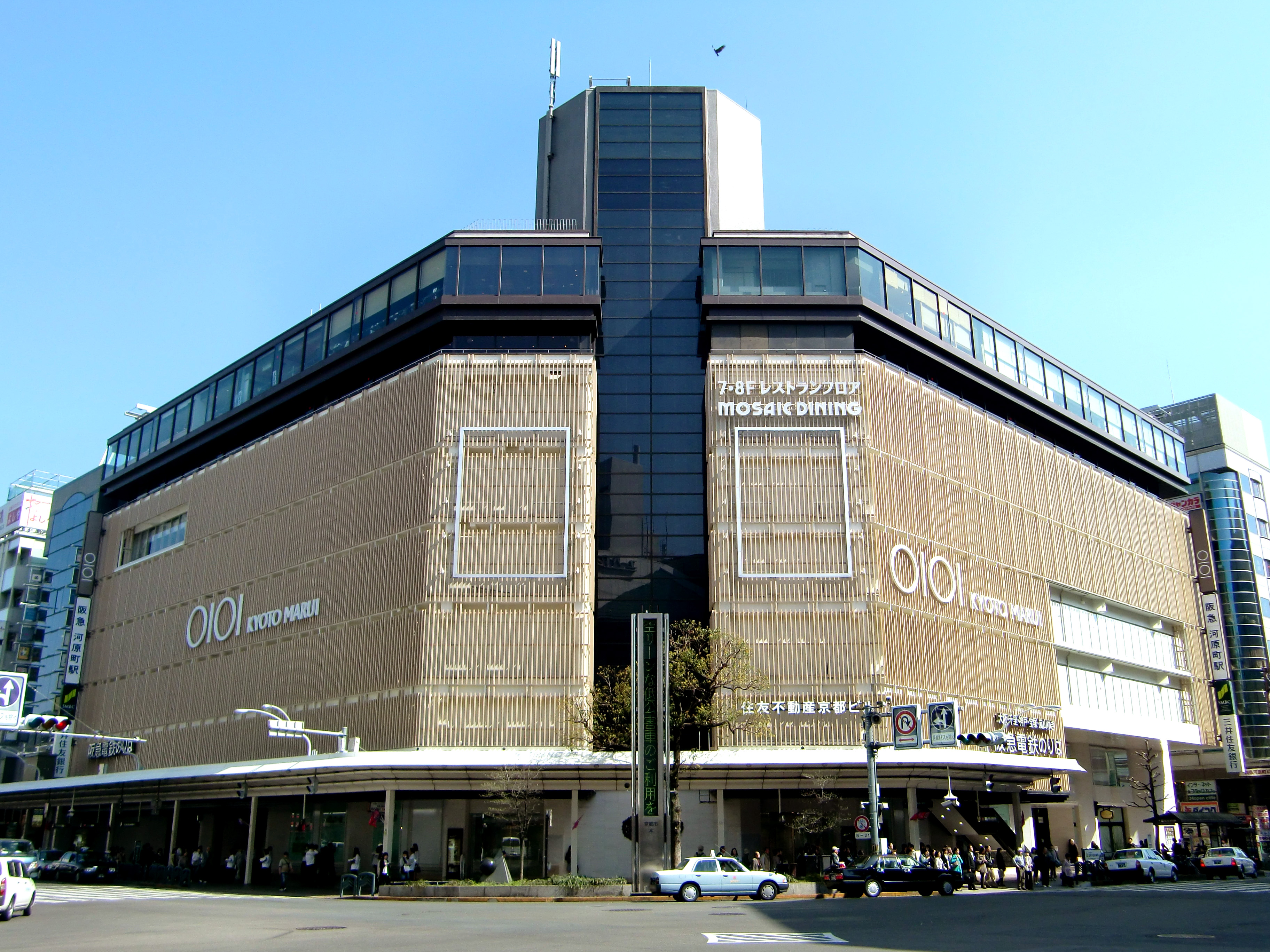 Kyoto MARUI (Kyoto Sumitomo Building), 68 Shinmachi Shijo-Kawaramachi-higashiiru Shimogyo-ku Kyoto-City Kyoto JAPAN.